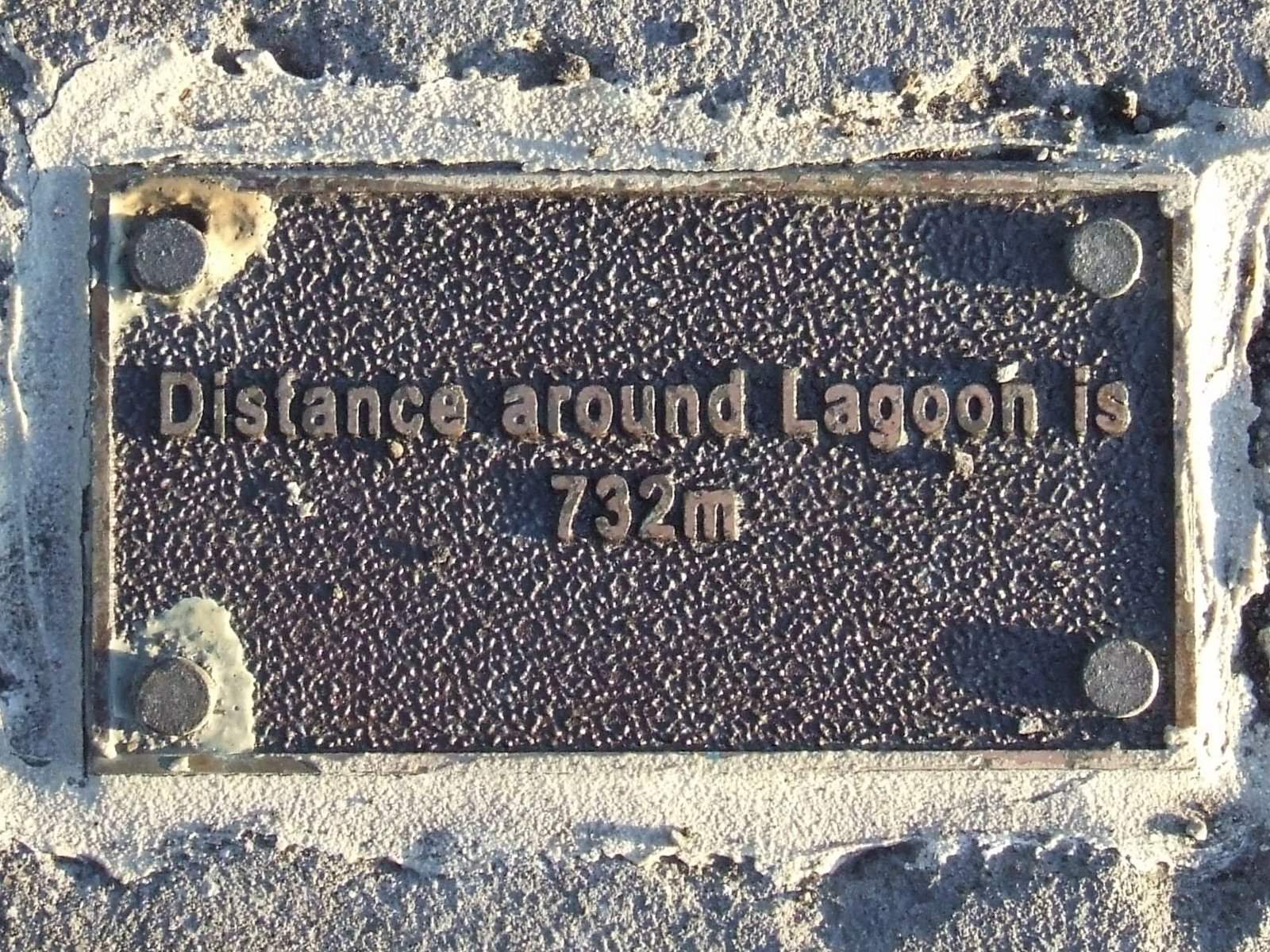 Plaque giving the distance around Aotea Lagoon, Porirua, New Zealand as 732 metres.